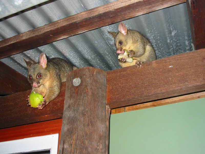 Father and Son (Trichosurus vulpecula)